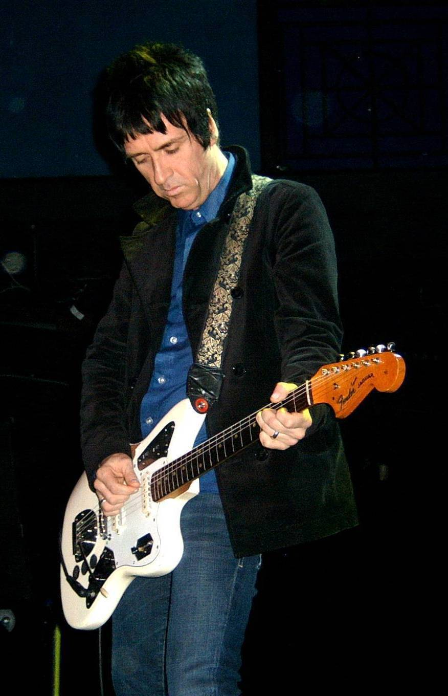 British guitarist Johnny Marr performs as part of The Cribs at the 9:30 Club in Washington, D.C.